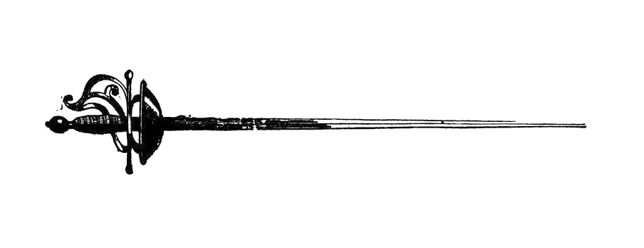 Неаполитанский меч. Иллюстрация из трактата "Trattato di scherma: sopra un nuovo sistema di giuoco misto di scuola italiana e francese" Alberto Marchionni